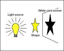 shadow formation